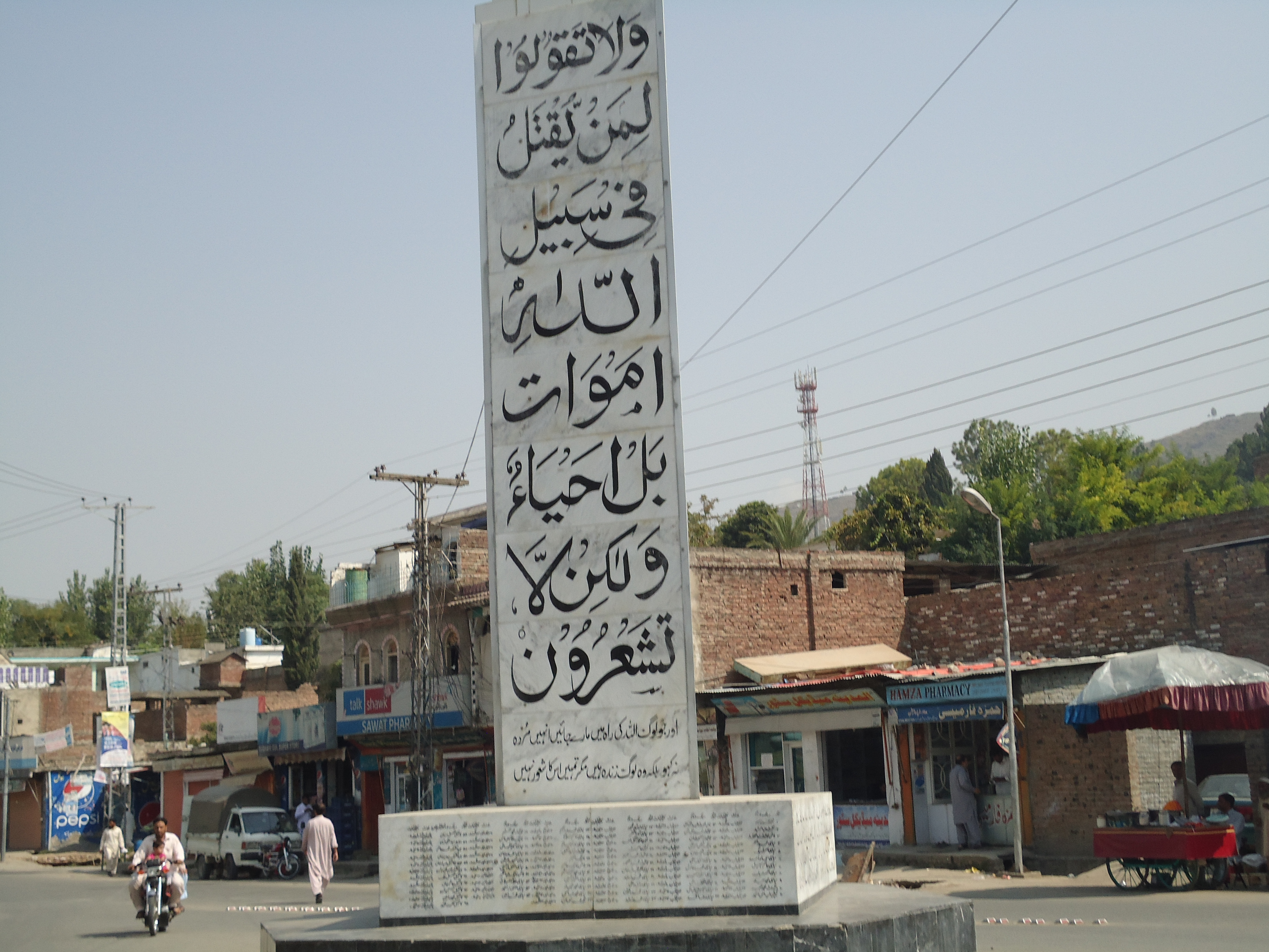 The Tower was erected by Pakistan Army in commemoration of those army officers,jawan and policemen who embrace martyrdom during the 2009 skirmishes with the Swat Taliban.Name of those who were martyered during the skirmishes are engraved at the base of the tower.